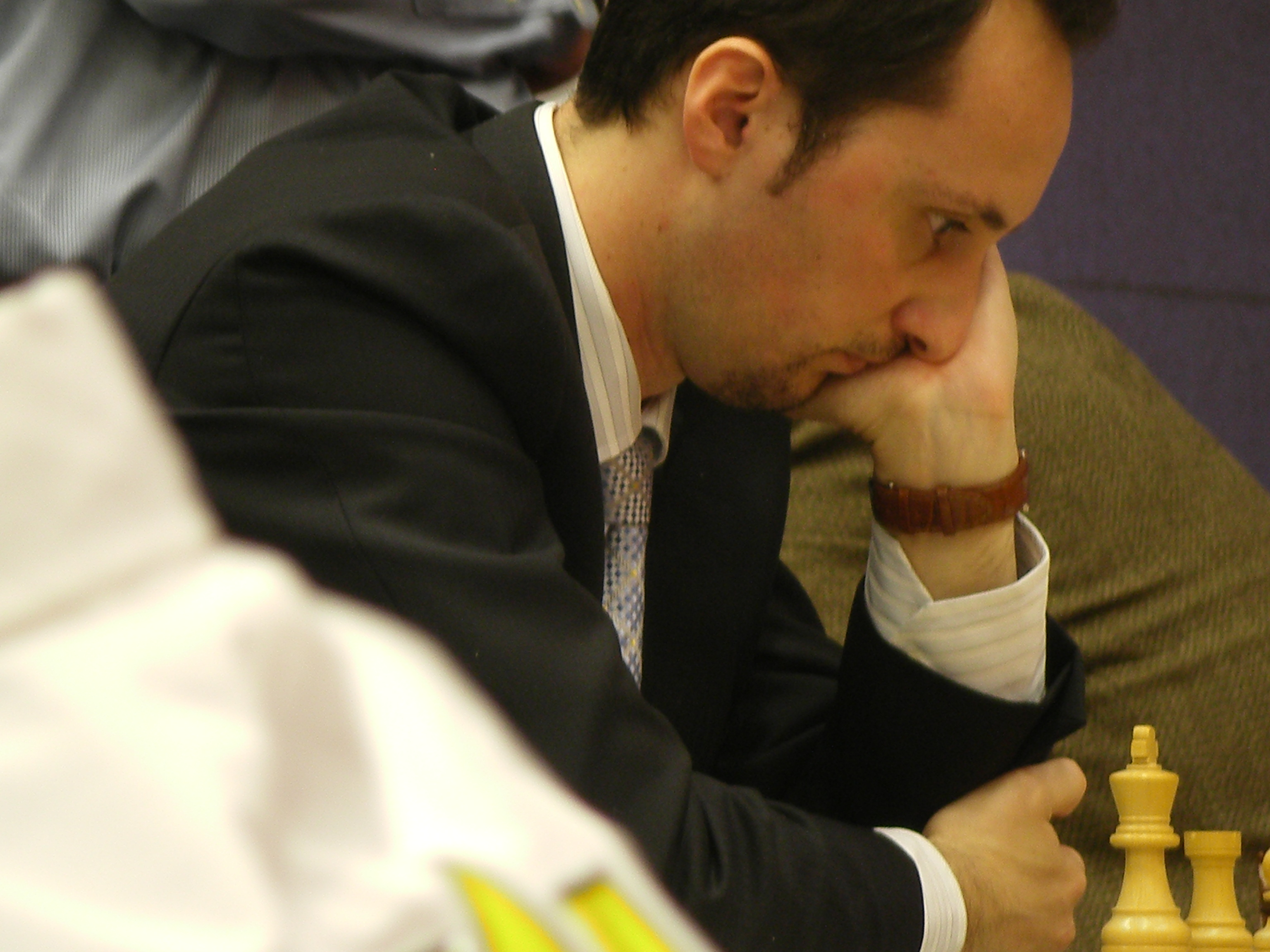 Veselin Topalov 'at work' on the Corus Chess Tournament in Wijk aan Zee/Nederlands, January 2008